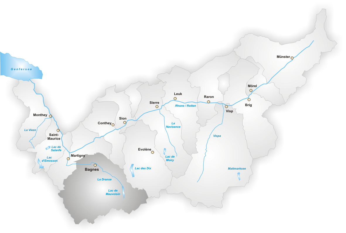 District Entremont